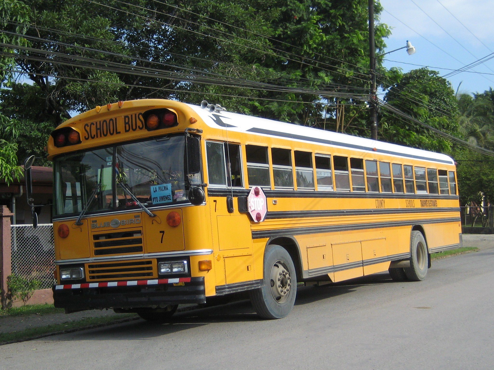 School Bus in Puerto Jimenez, Costa Rica